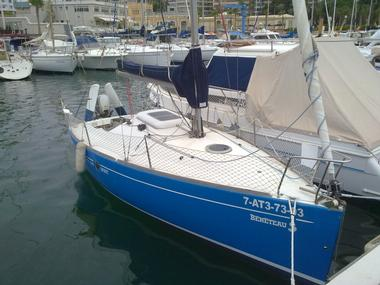 21 First